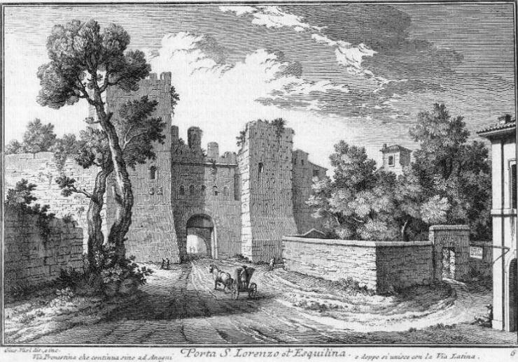 1) Porta S. Lorenzo